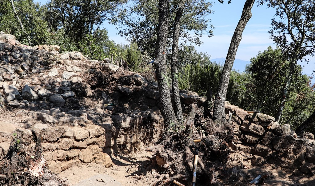 El jaciment ibèric del Turó Gros de Céllecs: Excavacions